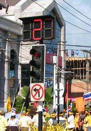 Traffic light with countdown timer in Phuket. Source: Taken by myself, March 29, 2006